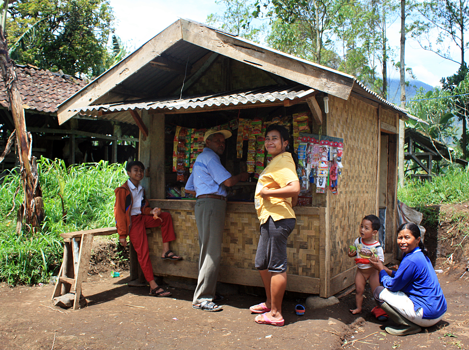 Locals buy something from a warung or a traditional small store in a village in Cisurupan, Garut Regency, West Java, Indonesia.